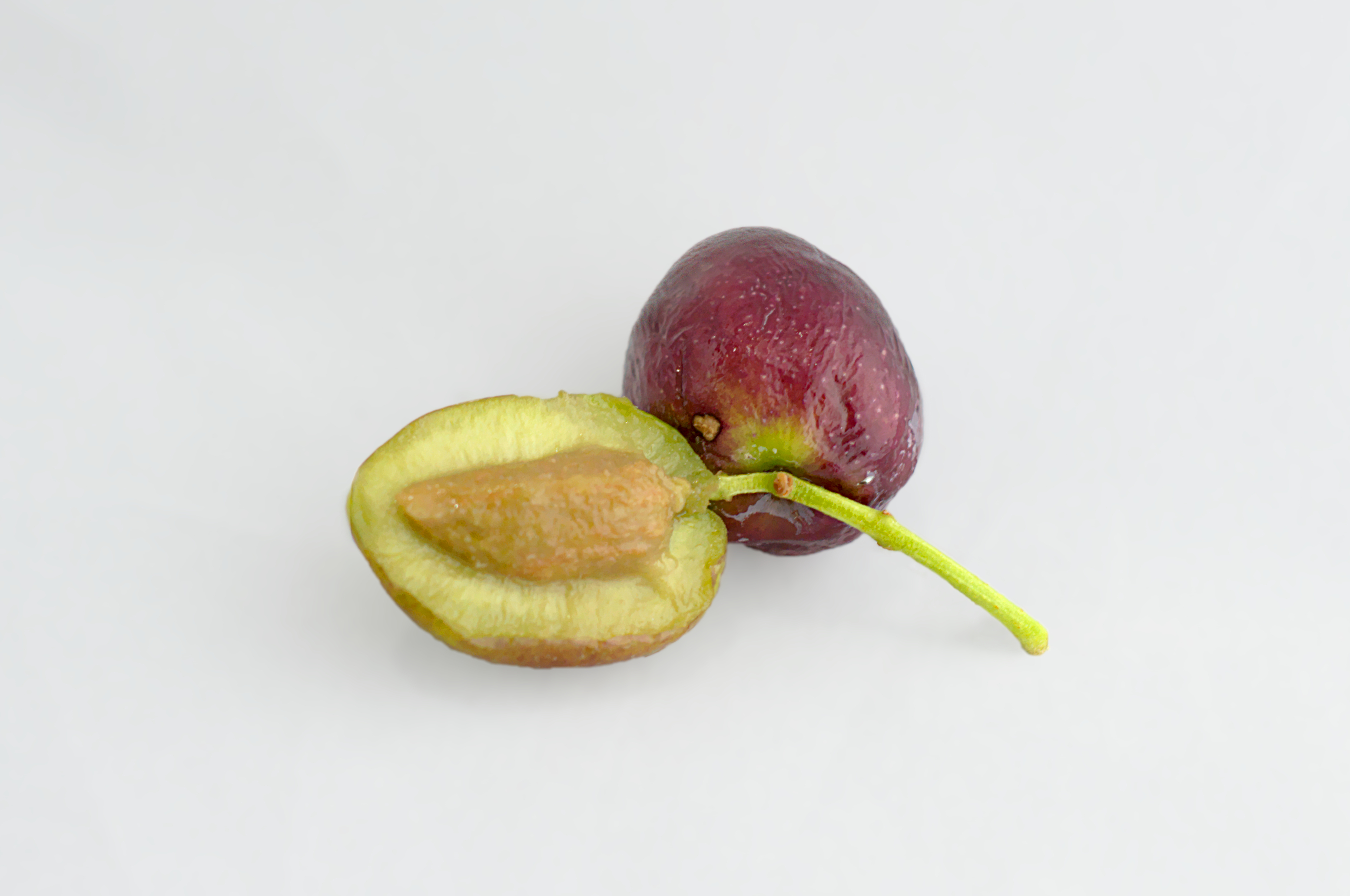 Fresh olives from Tunisia, hole fruit and half one with grain